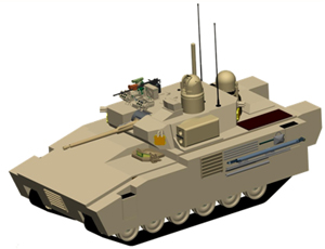 U.S. Army artist’s impression of the Infantry fighting vehicle variant of the BCT Ground Combat Vehicle Program. This model was used in the survivability analysis seen here[1]. Note the twin missile launcher, rubber band track and that it appears that the turret is unmanned